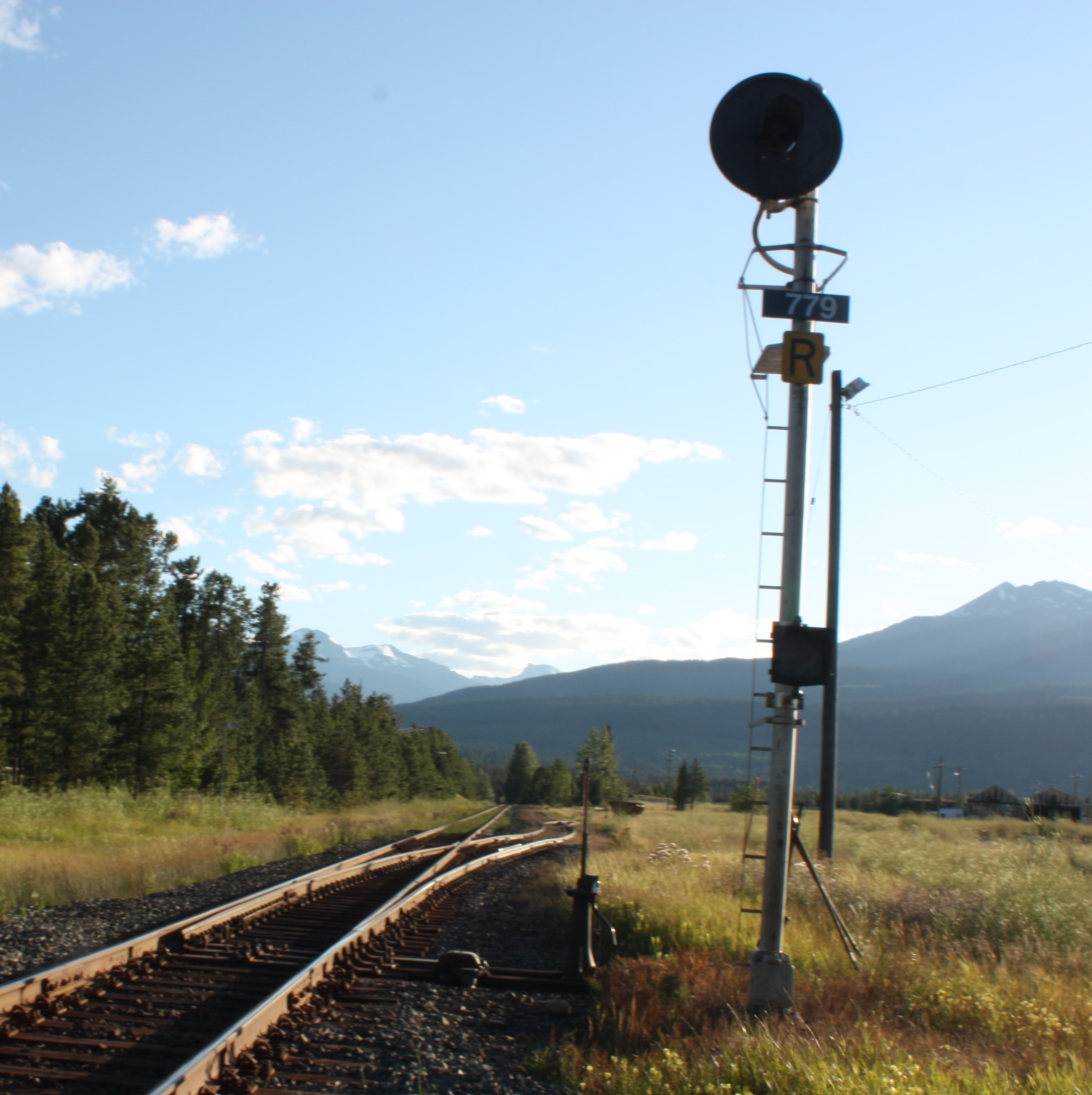 Cedarside siding, south of Valemount, British Columbia. The 1950 canoe River train crash occurred in this vicinity